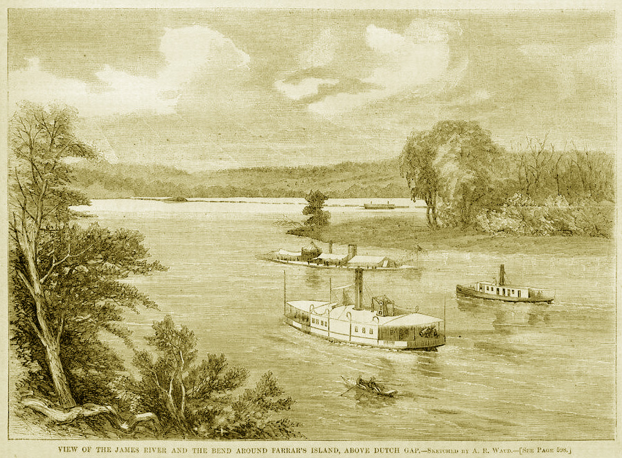 Picture of James River as it bends around Farrar's Island from 1864, which abutted the right flank of Union General Benjamin Butler's Army of the James during the Bermuda Hundred Campaign.